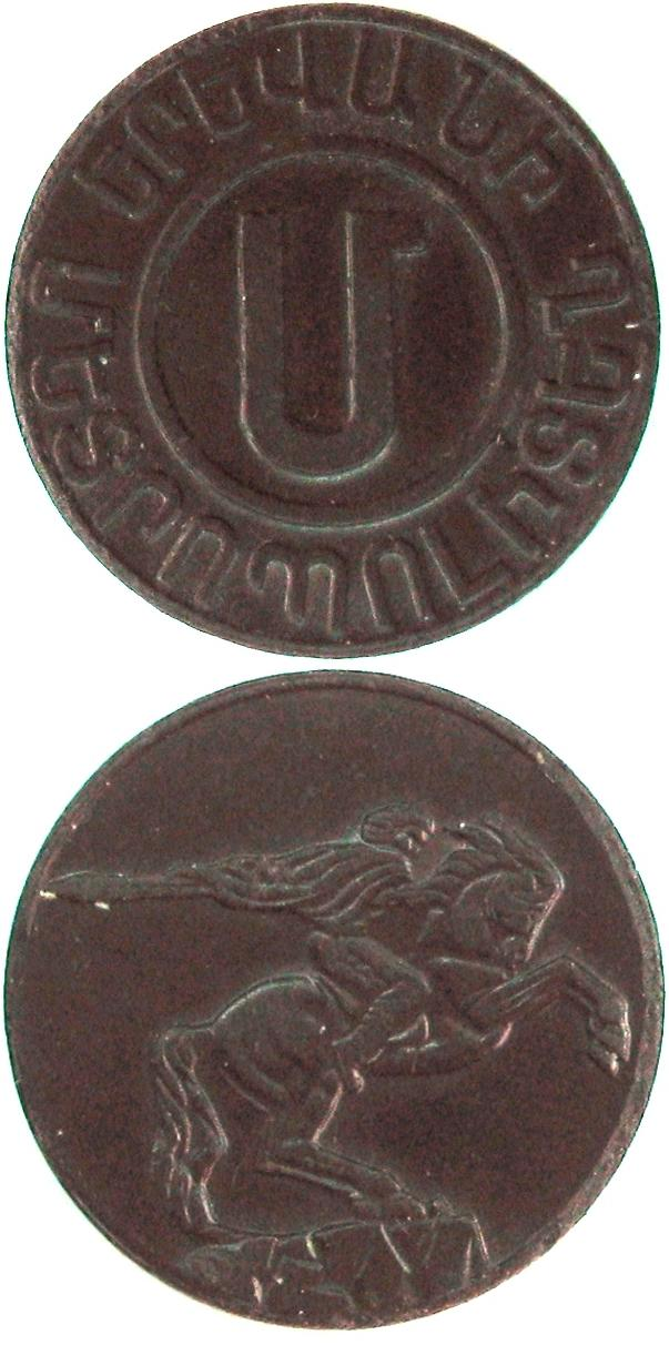 A token to Yerevan Subway (Armenia).